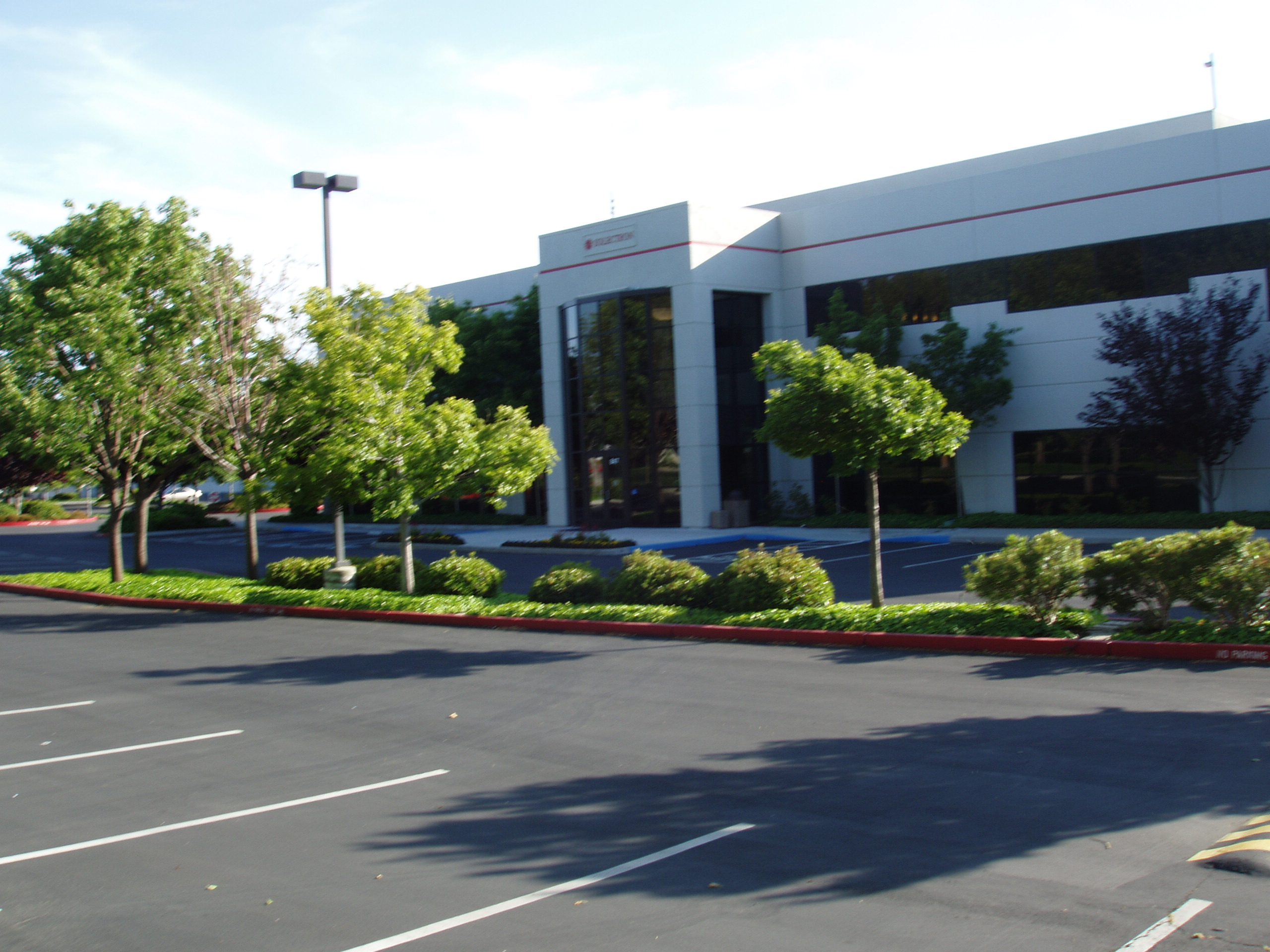 Flextronic headquarters in Milpitas